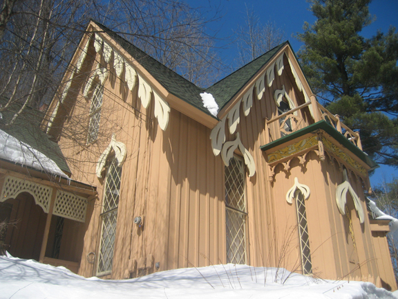 Photograph of Athenwood, the home of American painter Thomas Waterman Wood. Located in Montpelier, Vermont.